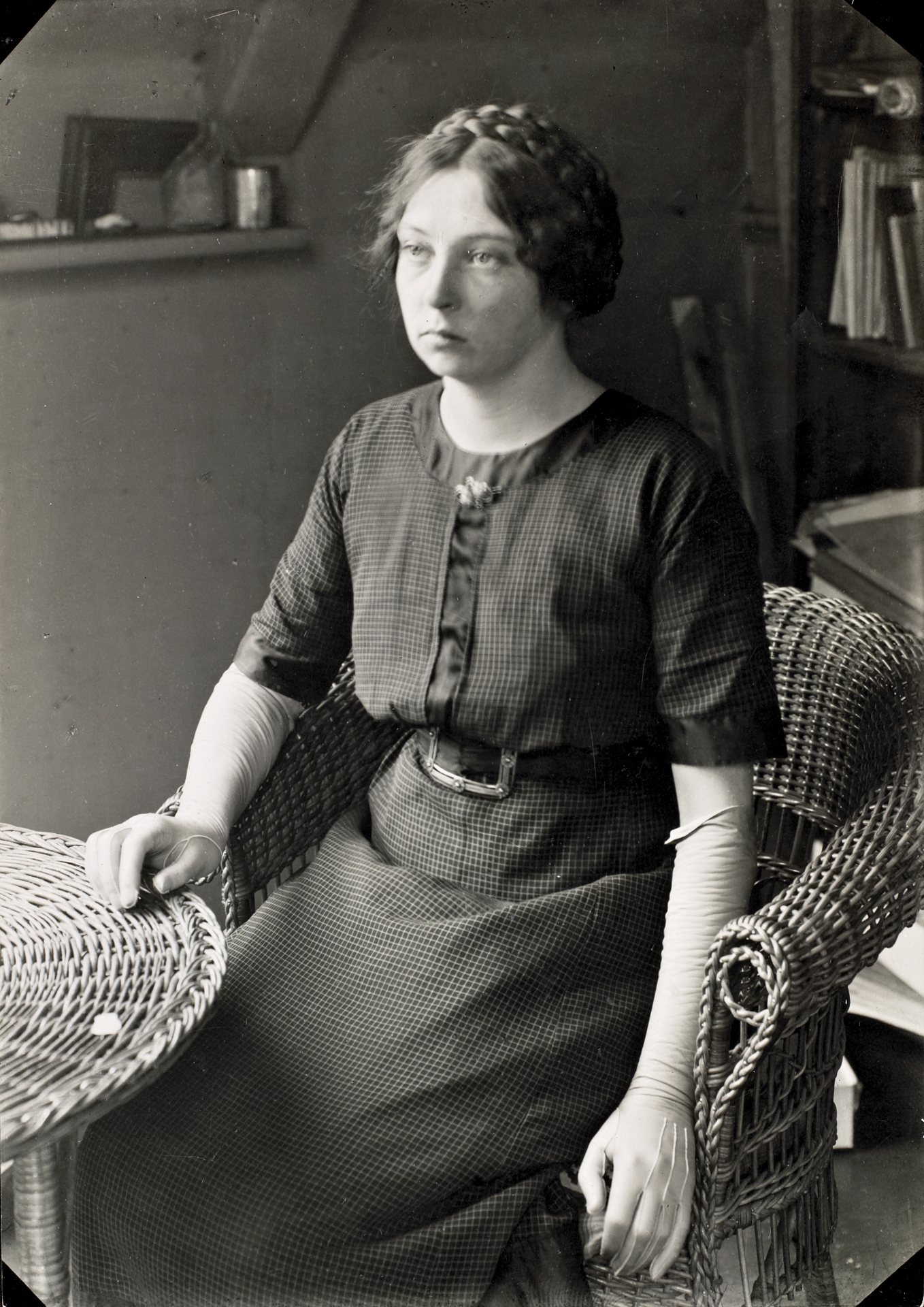 Tittel / Title: Portrett av Sigrid Undset (1882-1949) Dato / Date: ca 1911 Fotograf / Photographer: O. Væring Eier / Owner Institution: Nasjonalbiblioteket / National Library of Norway Lenke / Link: Bildesignatur / Image Number: blds_00225